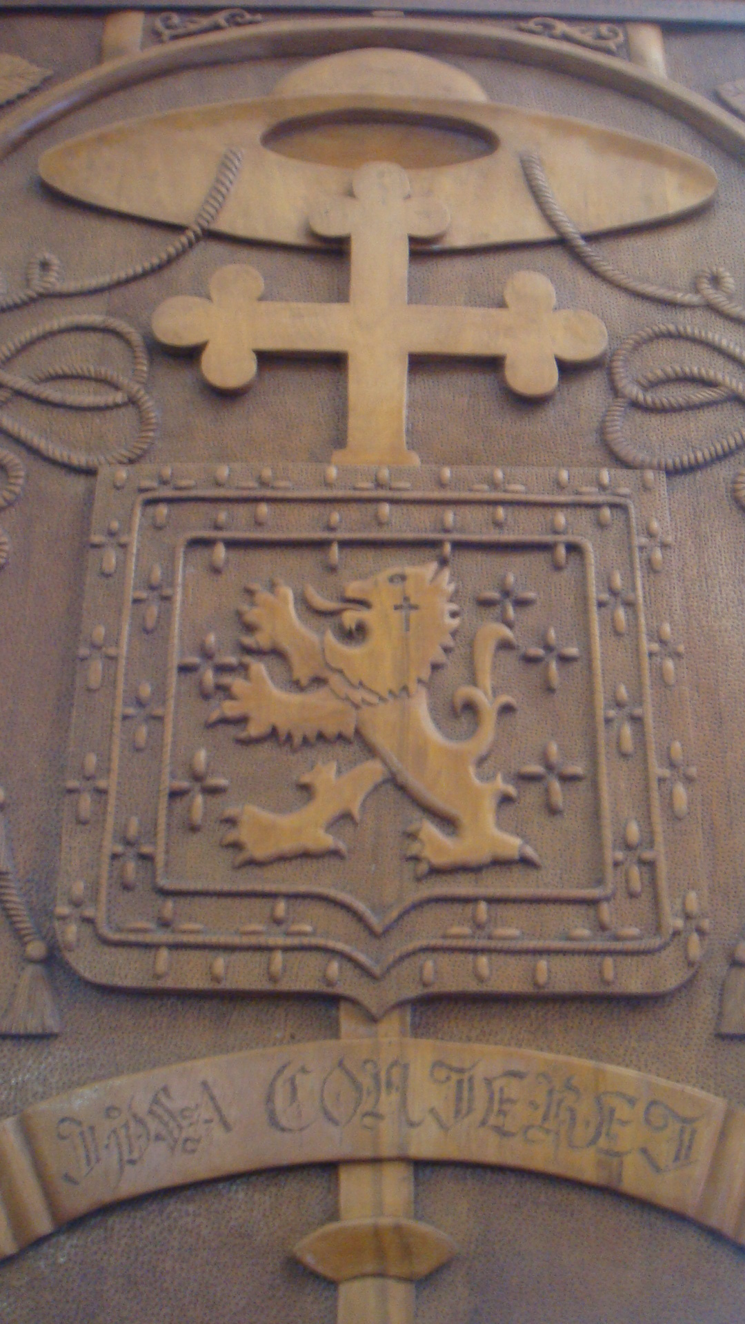 Coat of Arms of Brazilian Bishop of Campos dos Goutacazes, Don Antonio de Castro Mayer, carved in a wooden door in the "Personal Church of Our Lady Aparecida and Sao Fidelis", belonging to the Personal Apostolic Administration of Saint John Mary Vianney, in Sao Fidelis , Brazil.